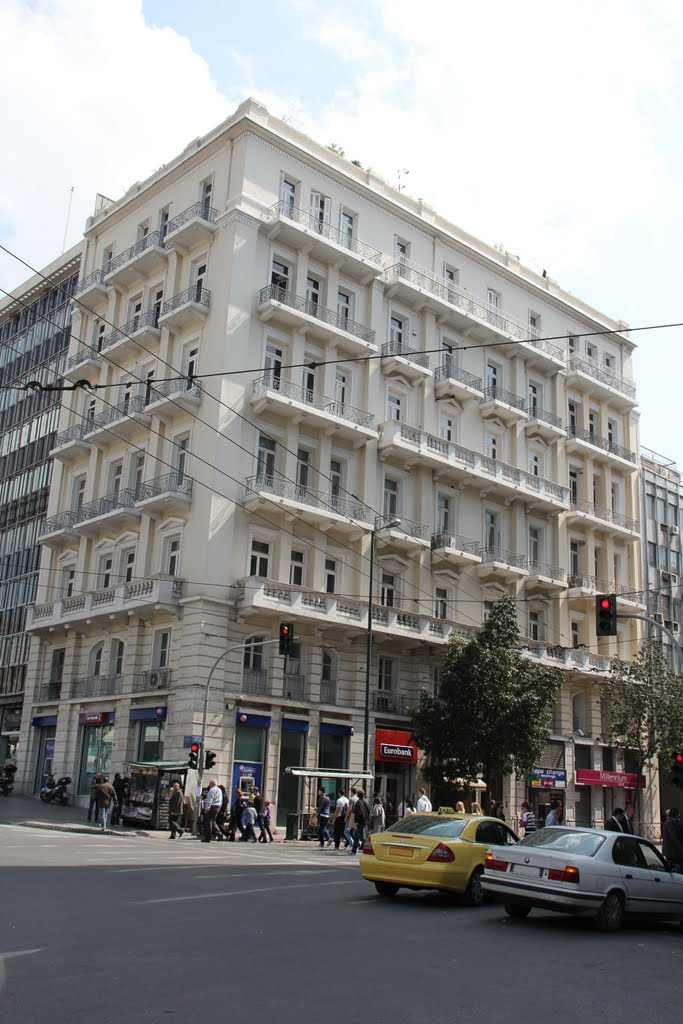 One of the first, if not the first, apartment building of Athens that was built in 1917–1919 by architect Alexandros Metaxas in an eclectic style for Petros Giannaros on Philellinon and Othonos Streets, adjacently to Syntagma Square.